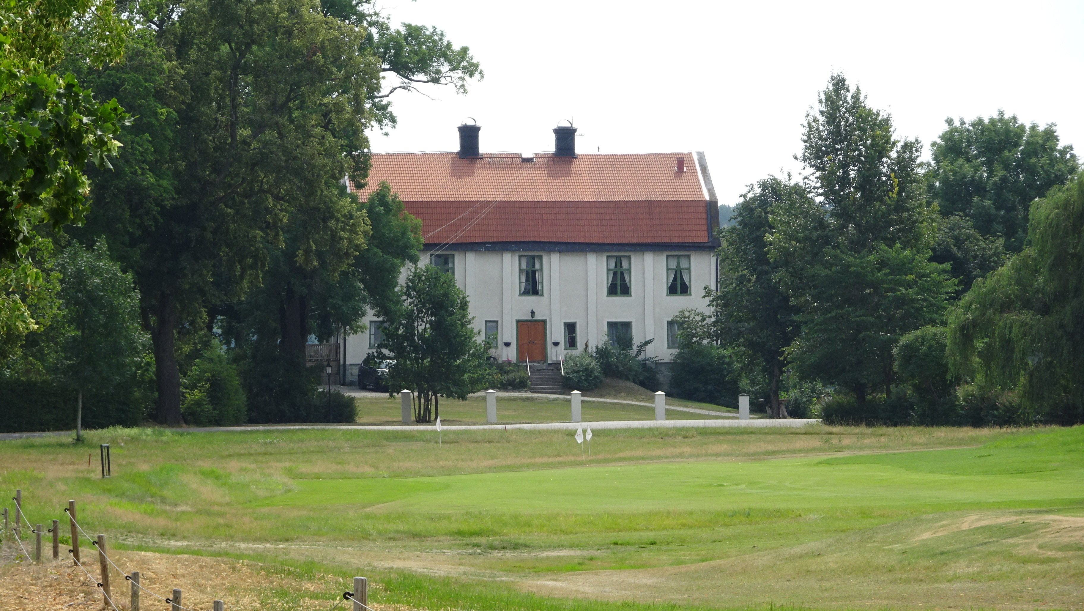 Frösåkers gård in Västerås municipality in Sweden.